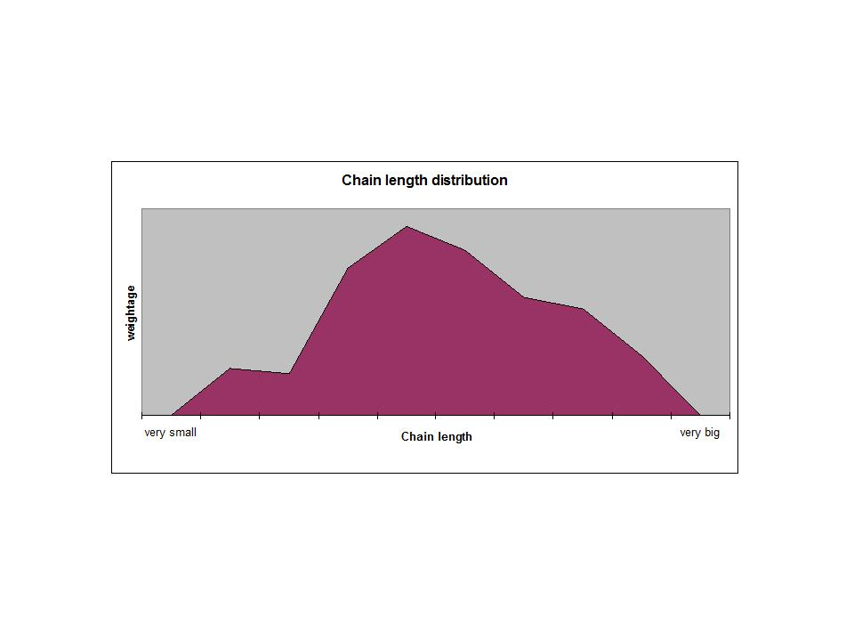 Chain length distribution